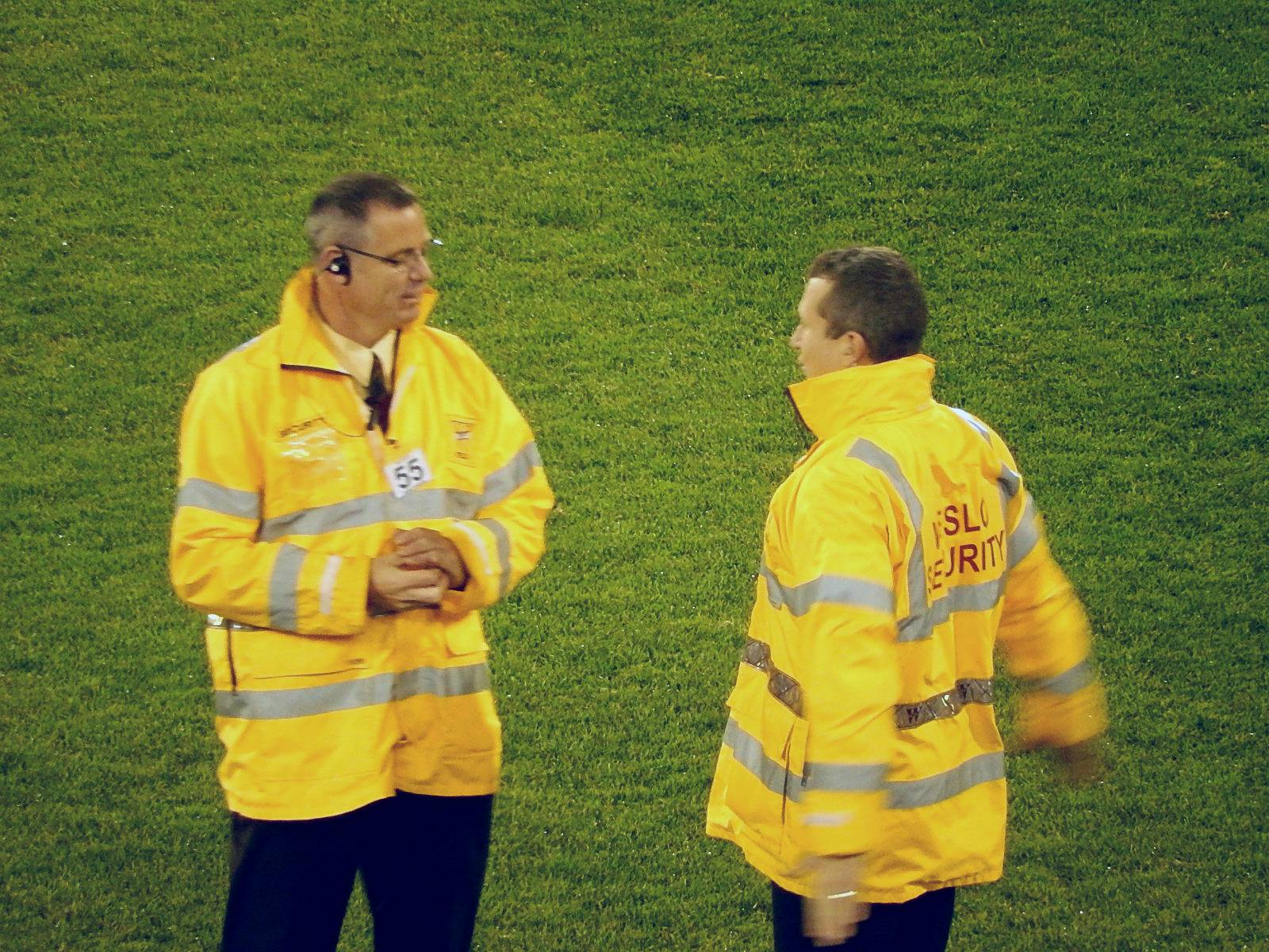 Weslo Security